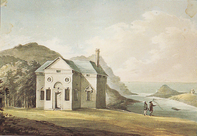 Watercolour by Rev. John Swete (1752-1821) entitled "Watermouth, seat of {blank} Davie Esq." This was the Palladian building near Ilfracombe, North Devon, demolished by Joseph Davie of Orleigh Court and replaced by Watermouth Castle, which survives today. Devon Record Office, ref 564M/F10/167, published in Gray, Todd & Rowe, Margery (Eds.), Travels in Georgian Devon: The Illustrated Journals of the Reverend John Swete, 1789-1800, vol.3, Tiverton, 1999, p.87